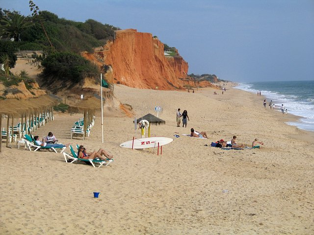 Praia de Vale do Lobo, Algarve, Portugal.